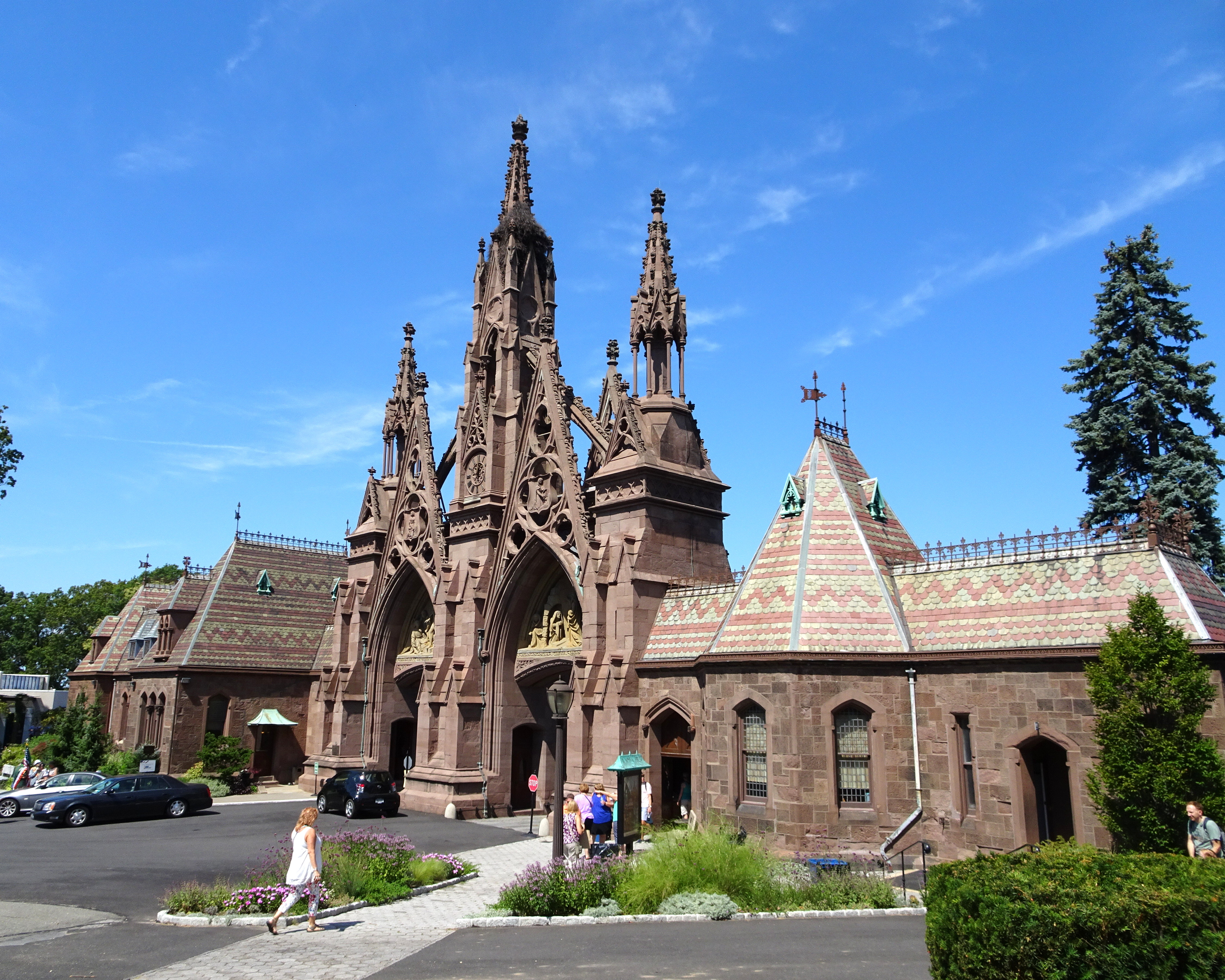 Looking northwest at Green-Wood main gate on a sunny midday before Battle of Long Island